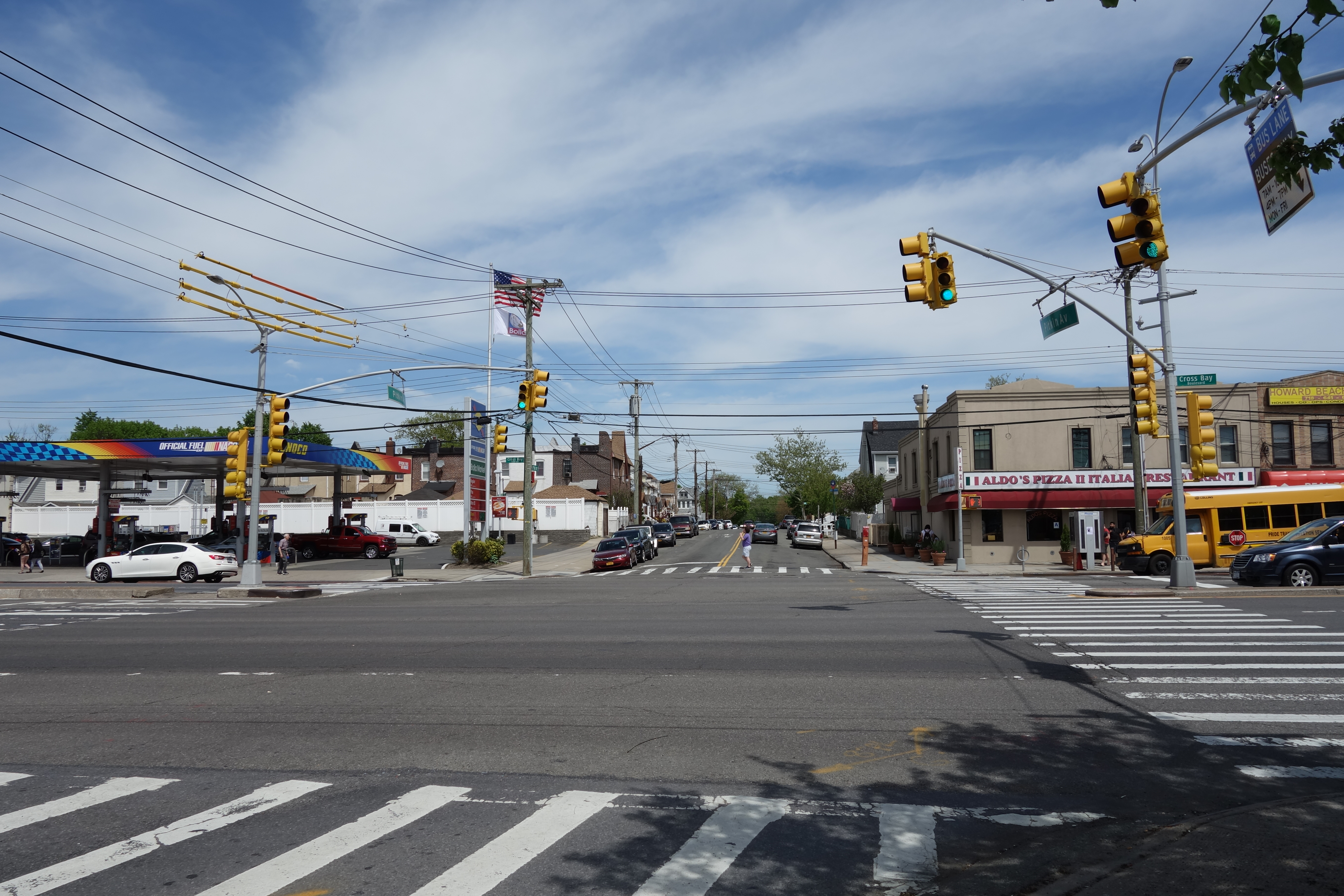 The intersection of Cross Bay Boulevard and Pitkin Avenue in Ozone Park, Queens. Looking from the Panzarella Triangle.